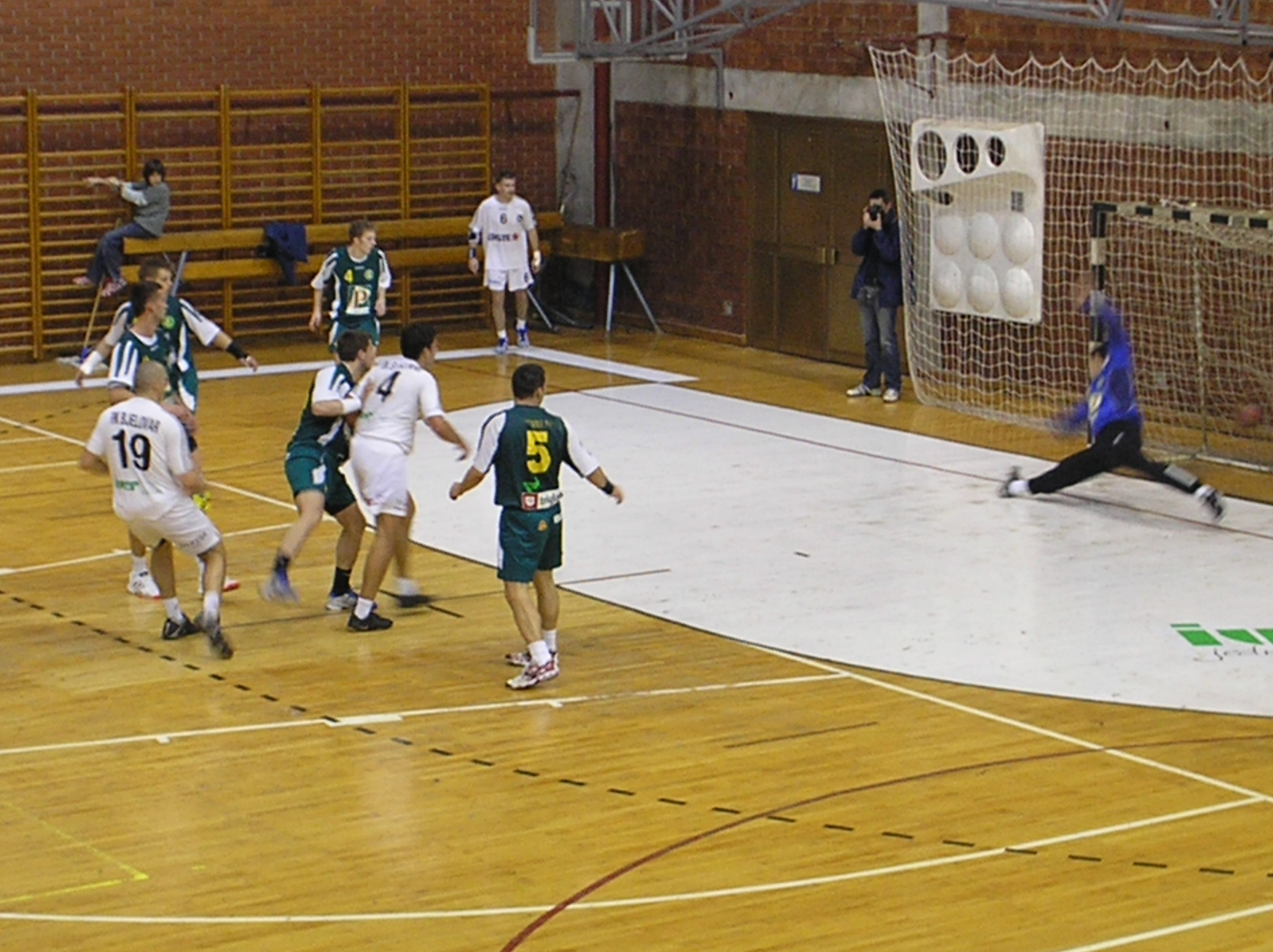 Handball game in Bjelovar, Croatia